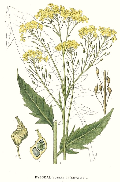 Original Description Rysskål, Bunias orientalis L.